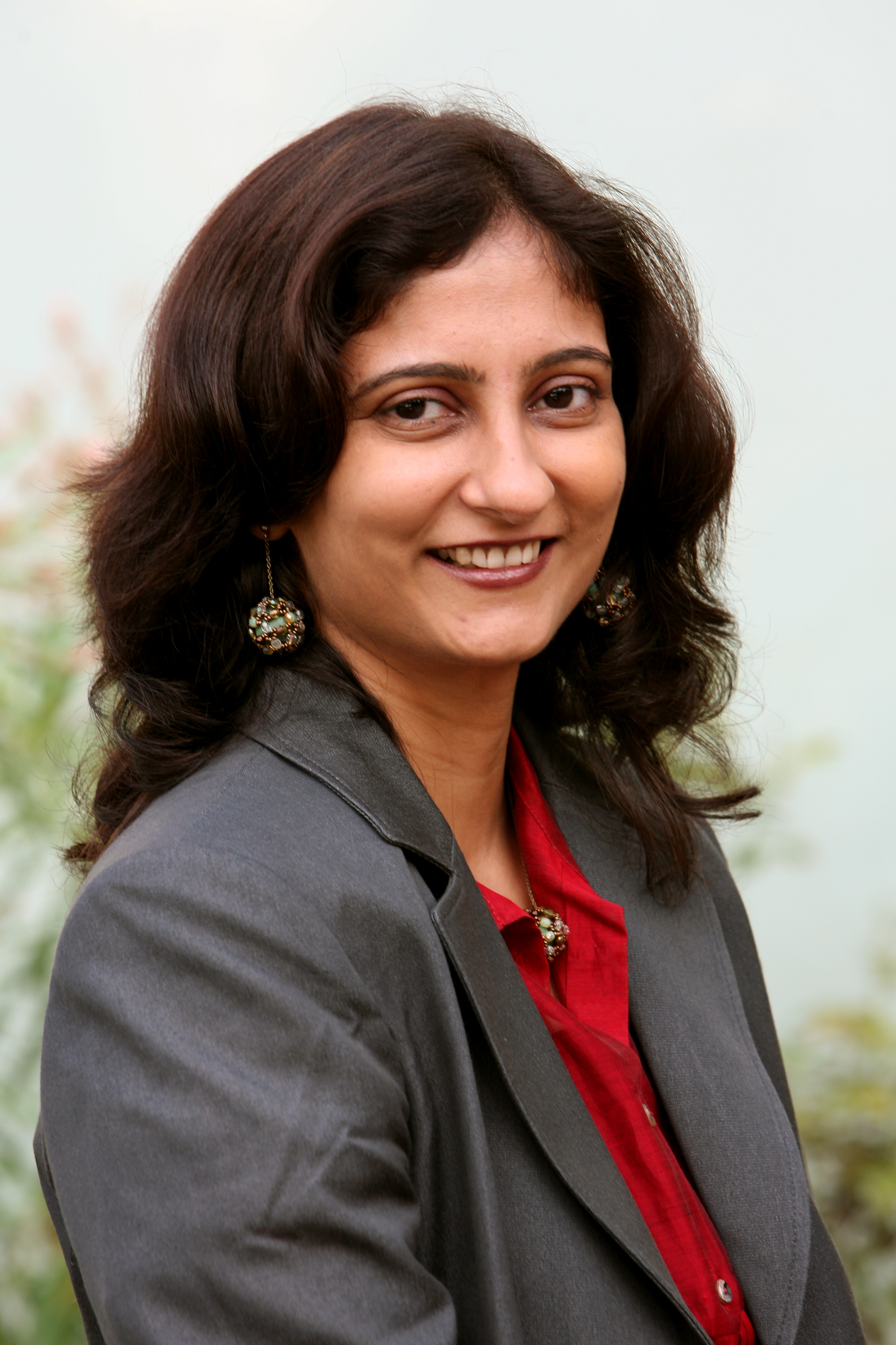 Anuradha Acharya, CEO Ocimum Biosolutions